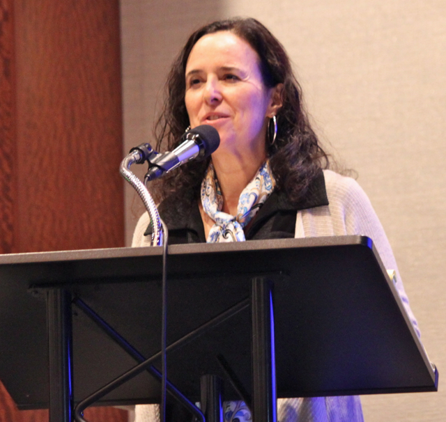 Ruth Behar, November 2012 at the American Anthropology Meetings in San Francisco